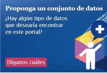 Screenshot from EUODP